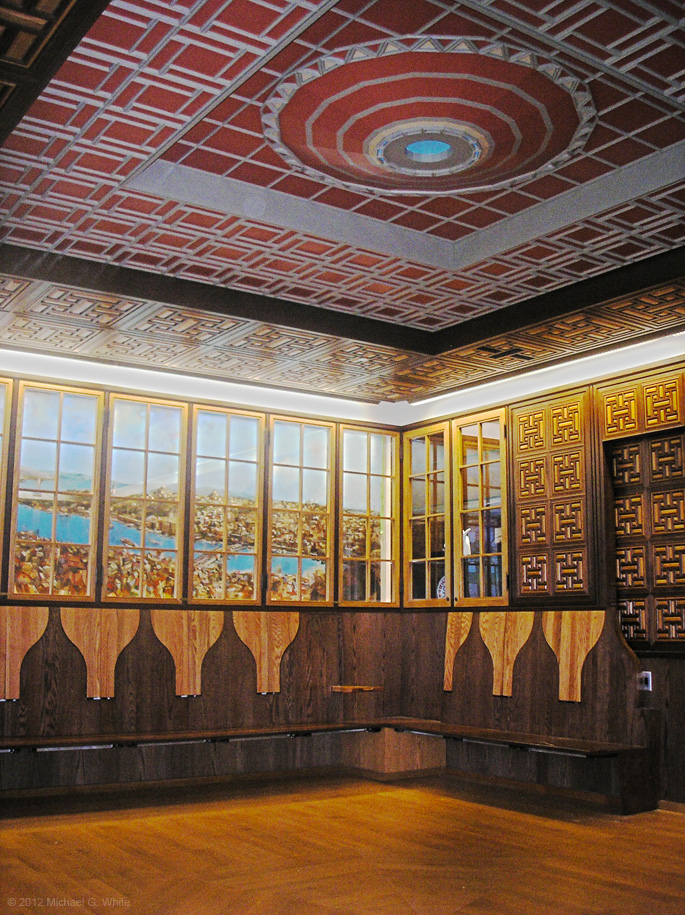 Turkish Nationality Room at the University of Pittsburgh